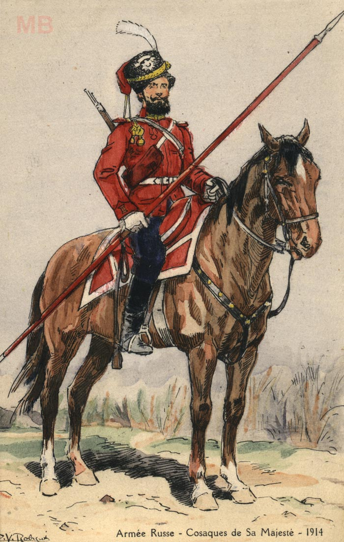 Uniform of Casak Guard Regiment. 1914 Postcard.